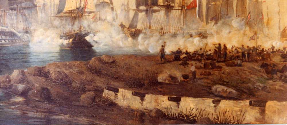 Battery of Ioannis Mexis (1754-1844). On a background a sea battle off the island of Spetsai (Battle of Nauplia (1822)). Closeup from "Η Ναυμαχία των Σπετσών", λεπτομέρεια πίνακα του Σπετσιώτη θαλασσογράφου Ιωάννη Γ. Κούτση